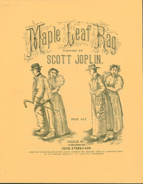 "Maple Leaf Rag" sheet music cover from 1899